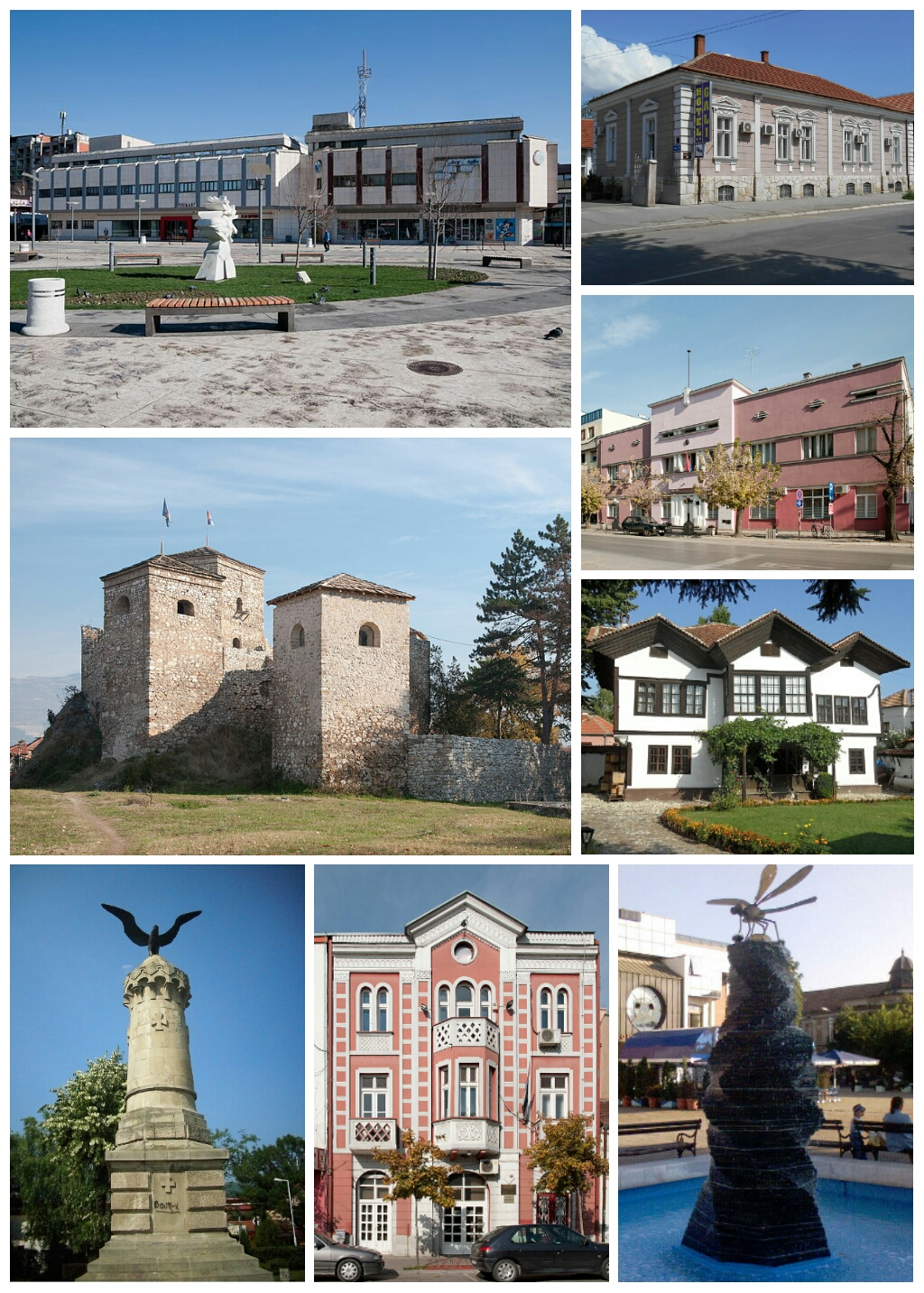 City of Pirot- photomontage (Pirot Central Square, The Building of the District Headquarters in Pirot, Pirot Fortress, Pirot Town Hall, Old House, Pirot, Monument to the dead in the Second Serbian-Turkish War, Pirot Employment Service building, Fountain in the center)